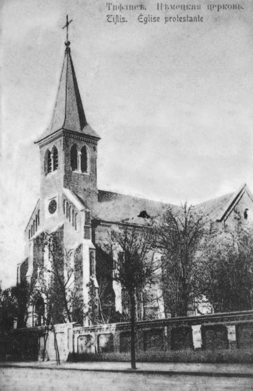 Peter-Paul luteran church (Tbilisi).